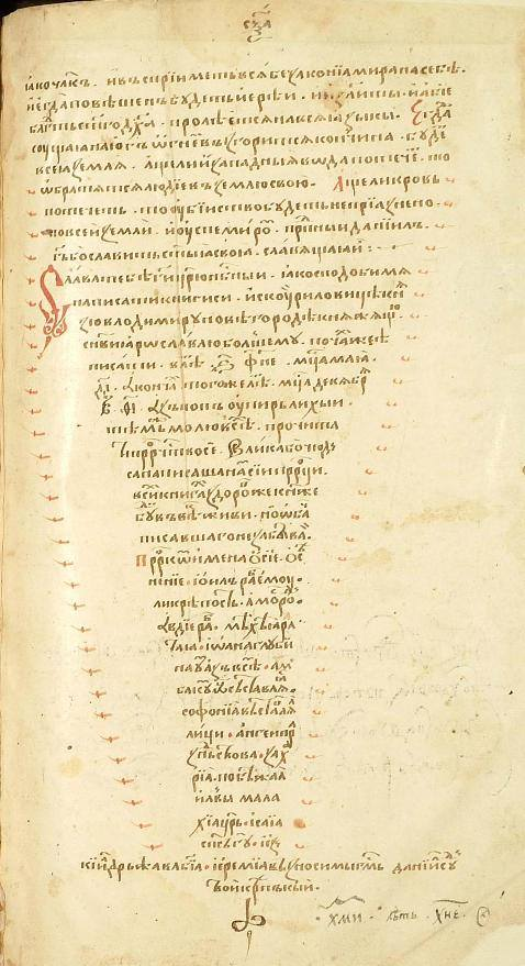 Upir Likhyj colophone, a XV-century copy of the 1047 manuscript